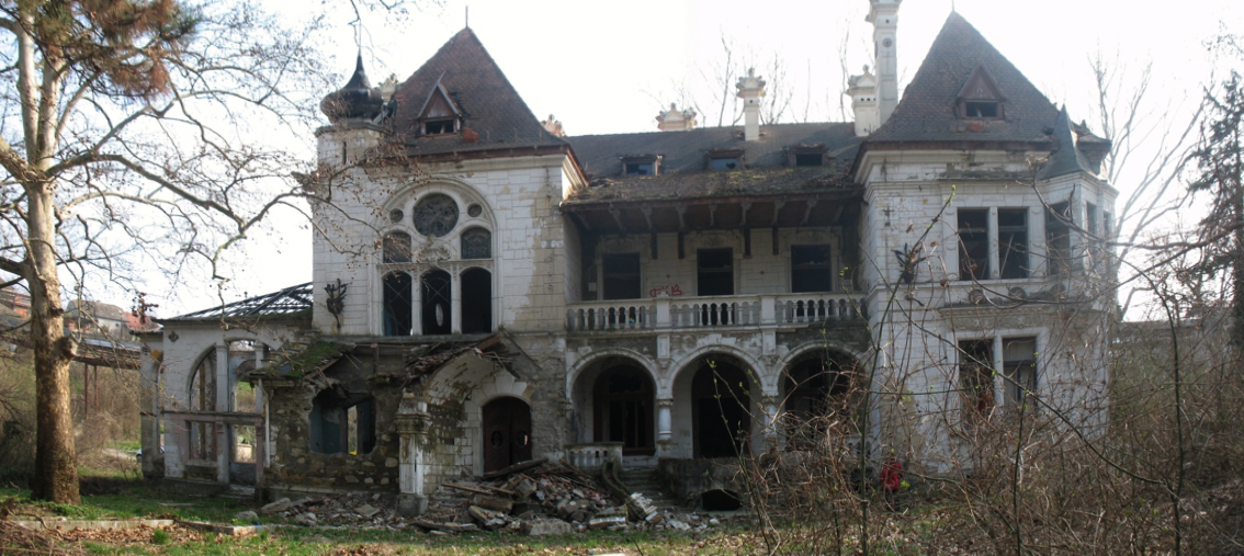 North facade of Špicer Castle in Beočin,Serbia.